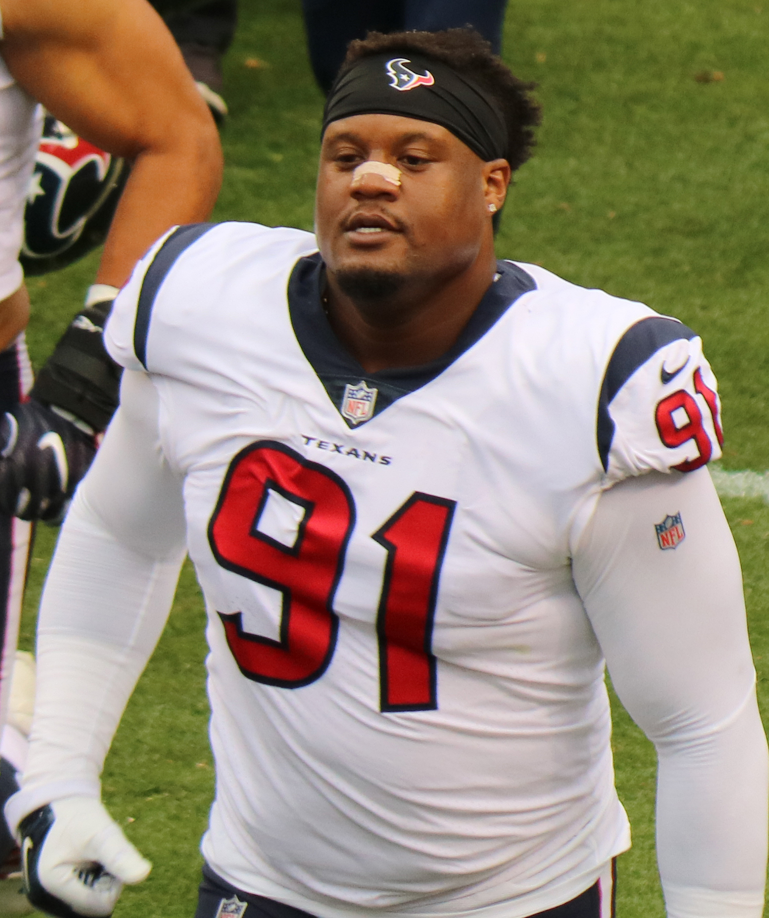 Carlos Watkins, a National Football League player.